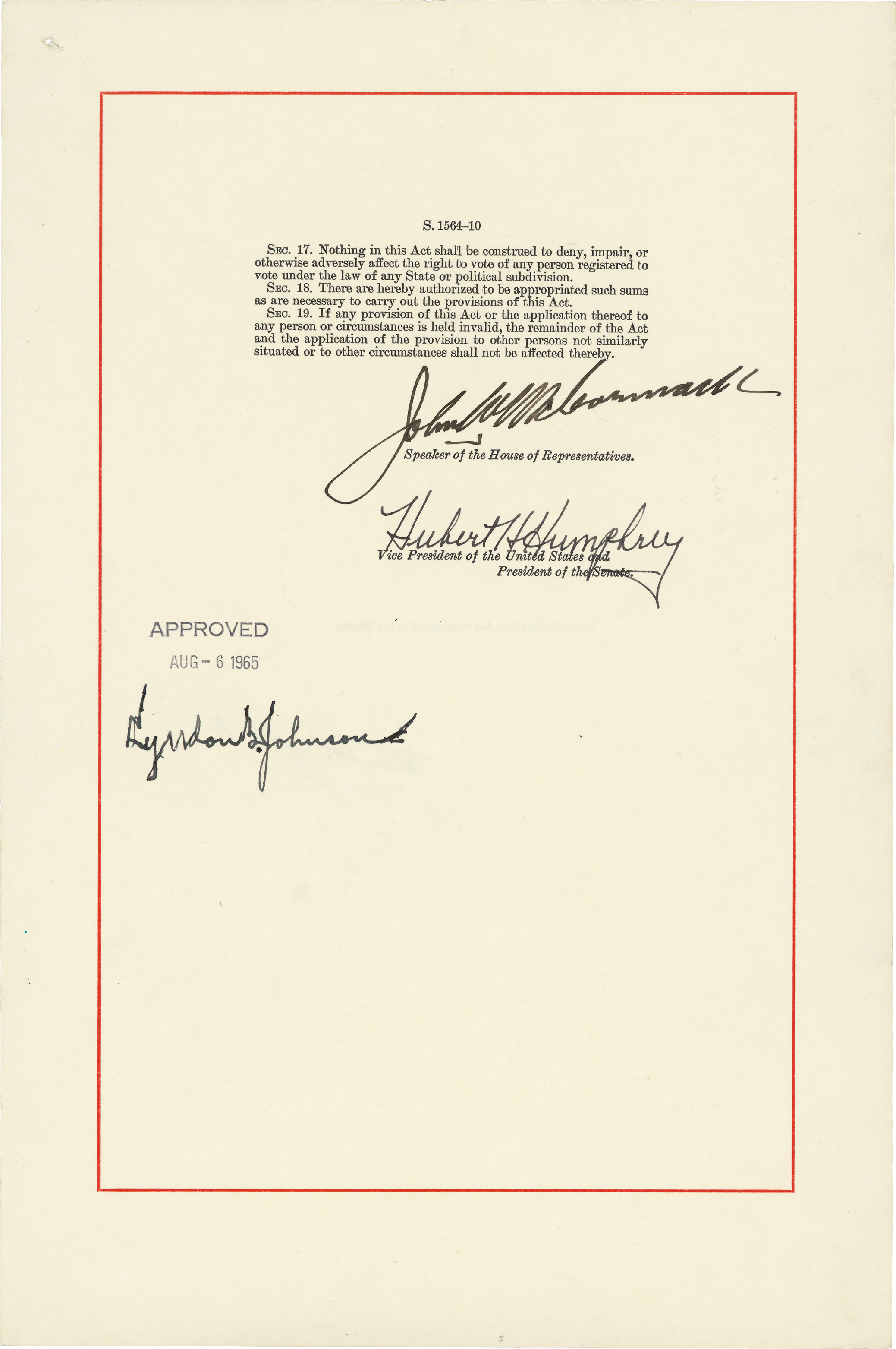 The last page of the Voting Rights Act.